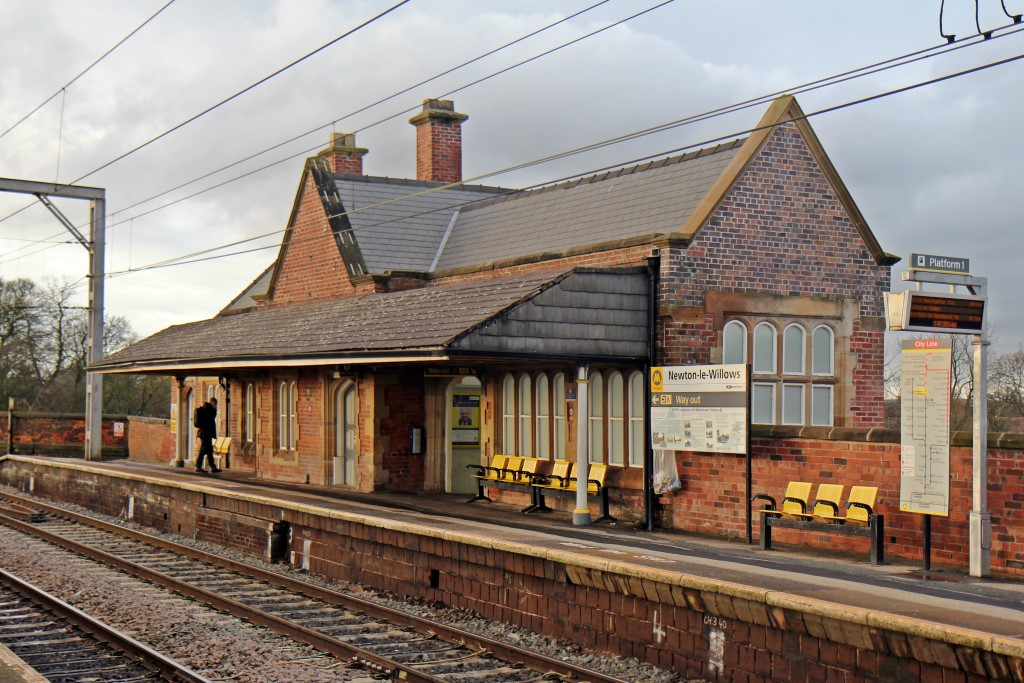 Booking office, Newton-Le-Willows railway station